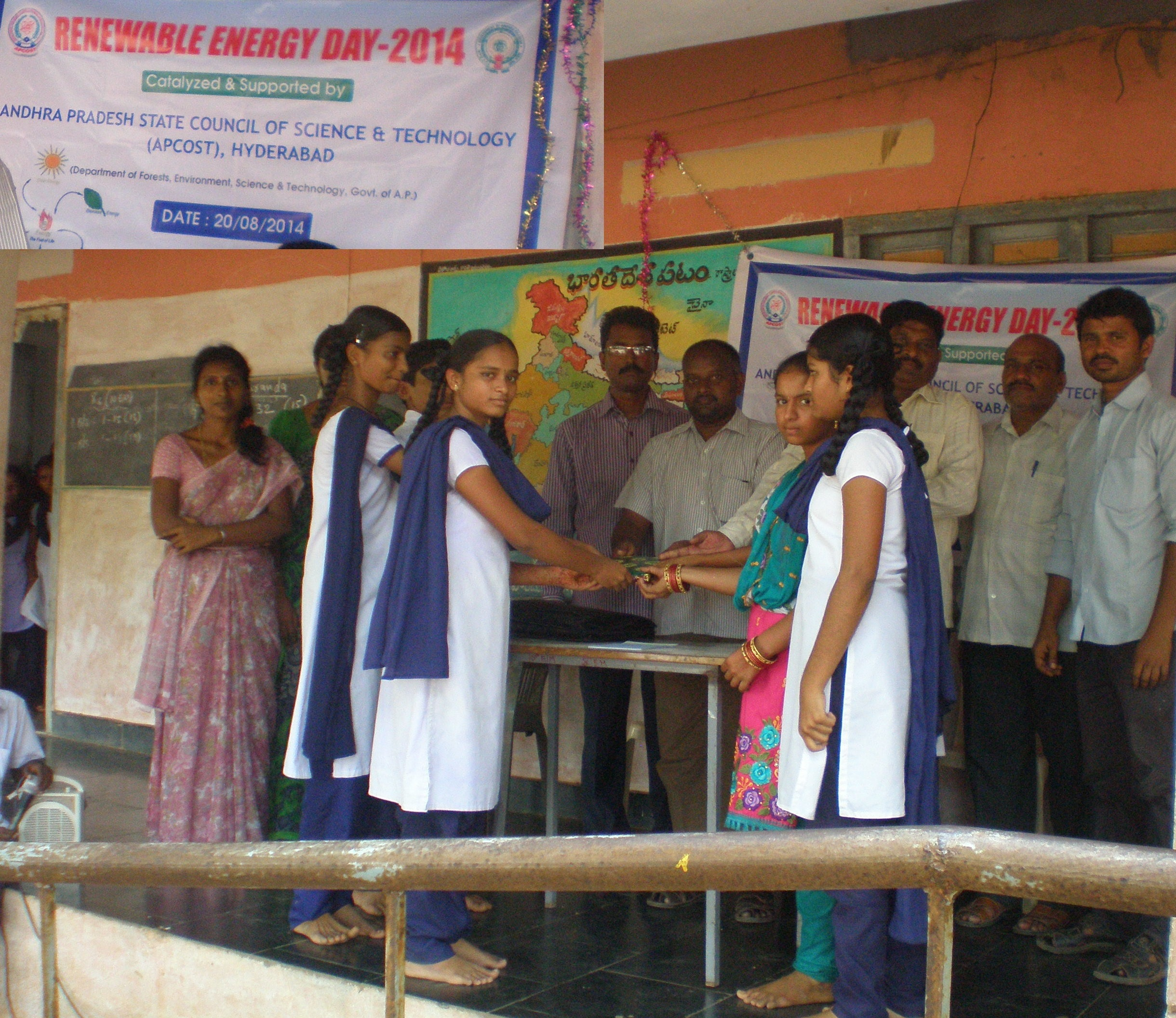 Renewable Energy Day Competitions prize winners, Kaligiri, Nellore (dt), A.P, India.